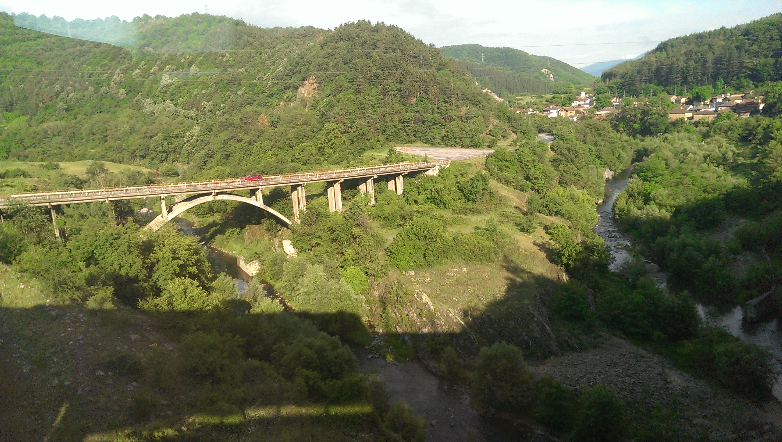 Momina klisura, Maritsa river, Gabrovitsa, Bulgaria